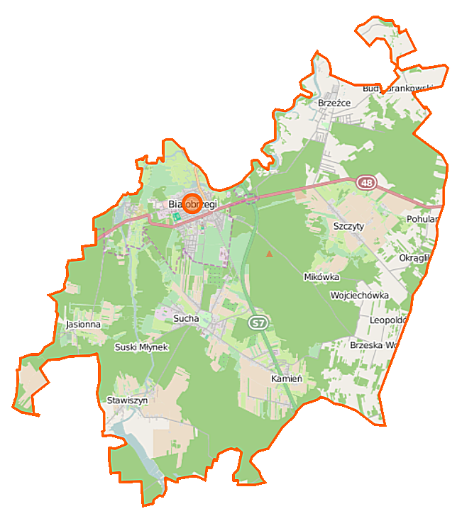 Map of Gmina Białobrzegi, Poland This map of Białobrzegi (gmina w województwie mazowieckim) was created from OpenStreetMap project data, collected by the community. This map may be incomplete, and may contain errors. Don't rely solely on it for navigation.